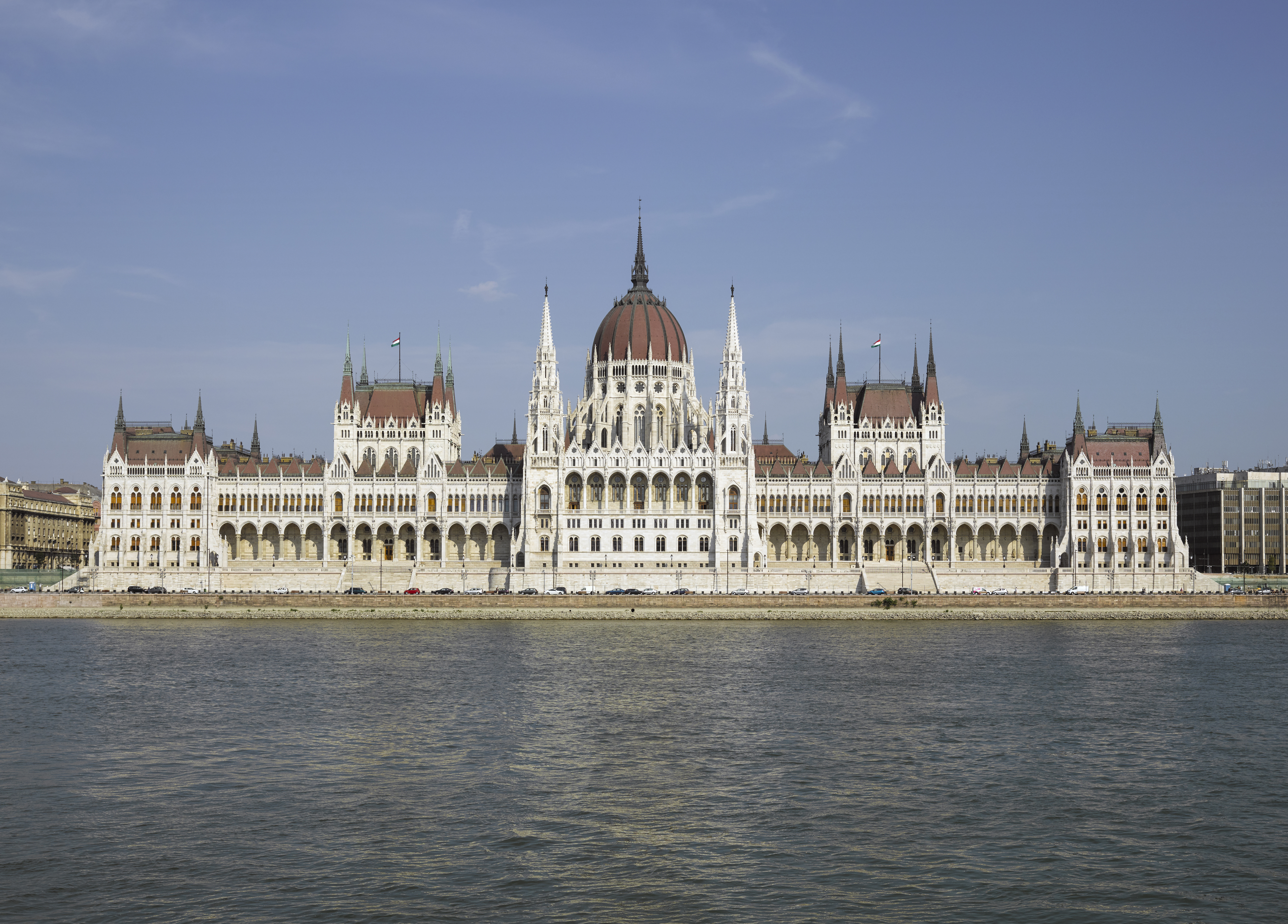 Hungarian Parliament Building, Budapest, Hungary, 2015.